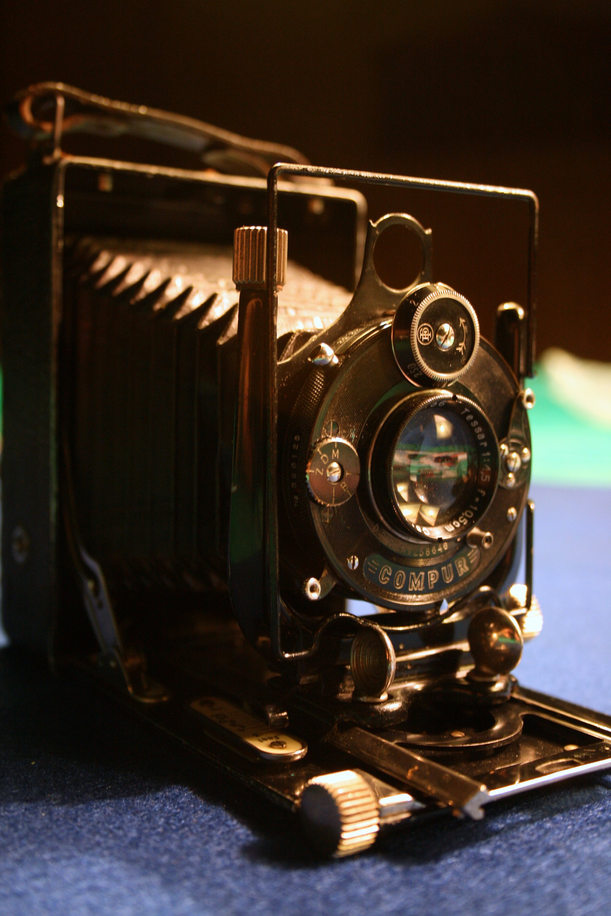 Remember the red suitcase? Well, as promised, here's the truth behind the contents. A colleague in work has had to bring her increasingly frail Dad a little closer to home, and this involved clearing his home. Not nice. Amongst the gems unearthed were three folding cameras. Two were Kodak 3A models, and this one, which I think is a bit newer, is a lovely Voigtlander Avus - dating I think from the early thirties. The bellows are in good order, and all the mechanical bits seem to work. It even comes with some natty extras like a roll film adaptor. I've no idea if they're worth anything, but I hope it's not much as otherwise I'll have to give them back!